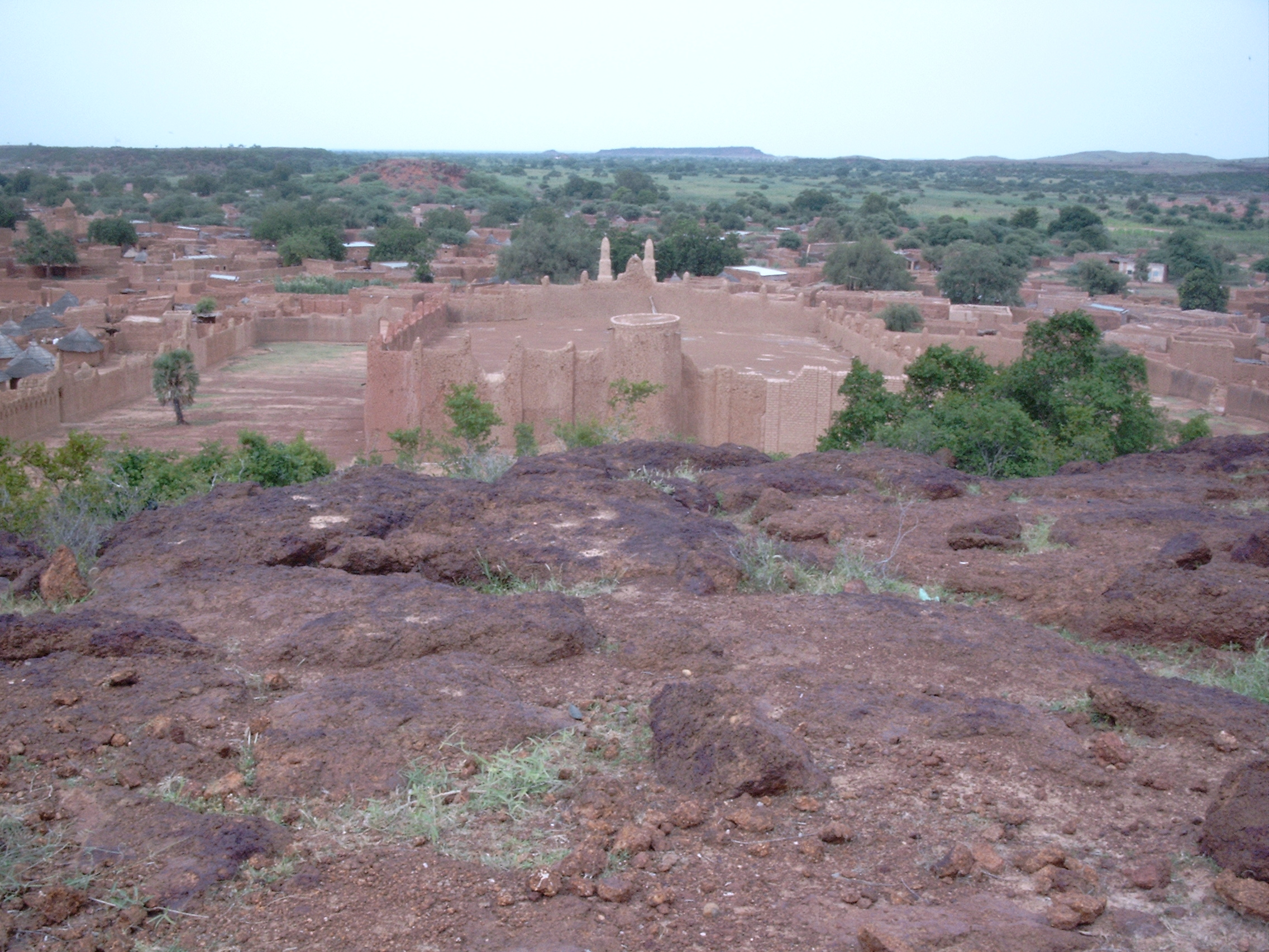 The largest one of the 7 mosques of Bani from above, northern Burkina Faso.